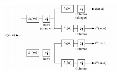 subband2